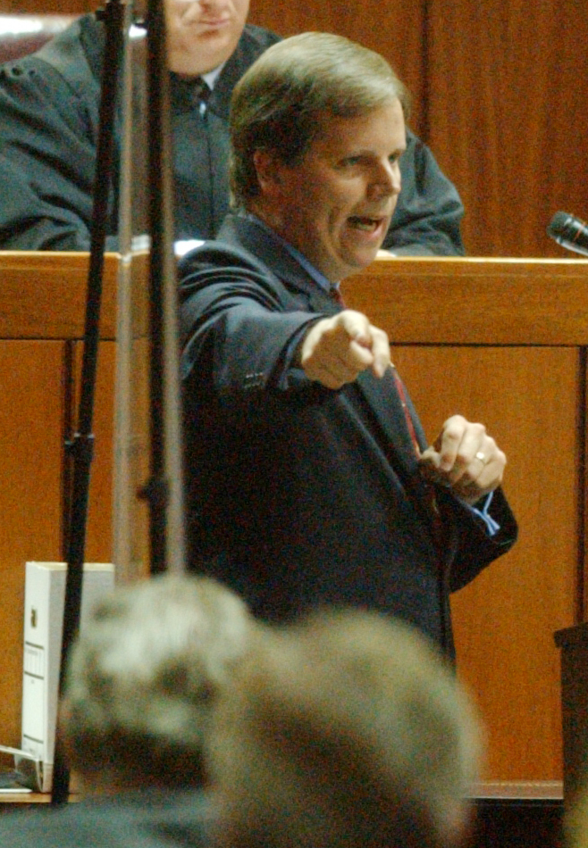 Trial of Bobby Frank Cherry. Defense and prosecution closing arguments. Prosecutor Doug Jones points at Cherry as he gives a rebuttal to the defense's closing argument. News Staff Photo/Hal Yeager reporter/Temple